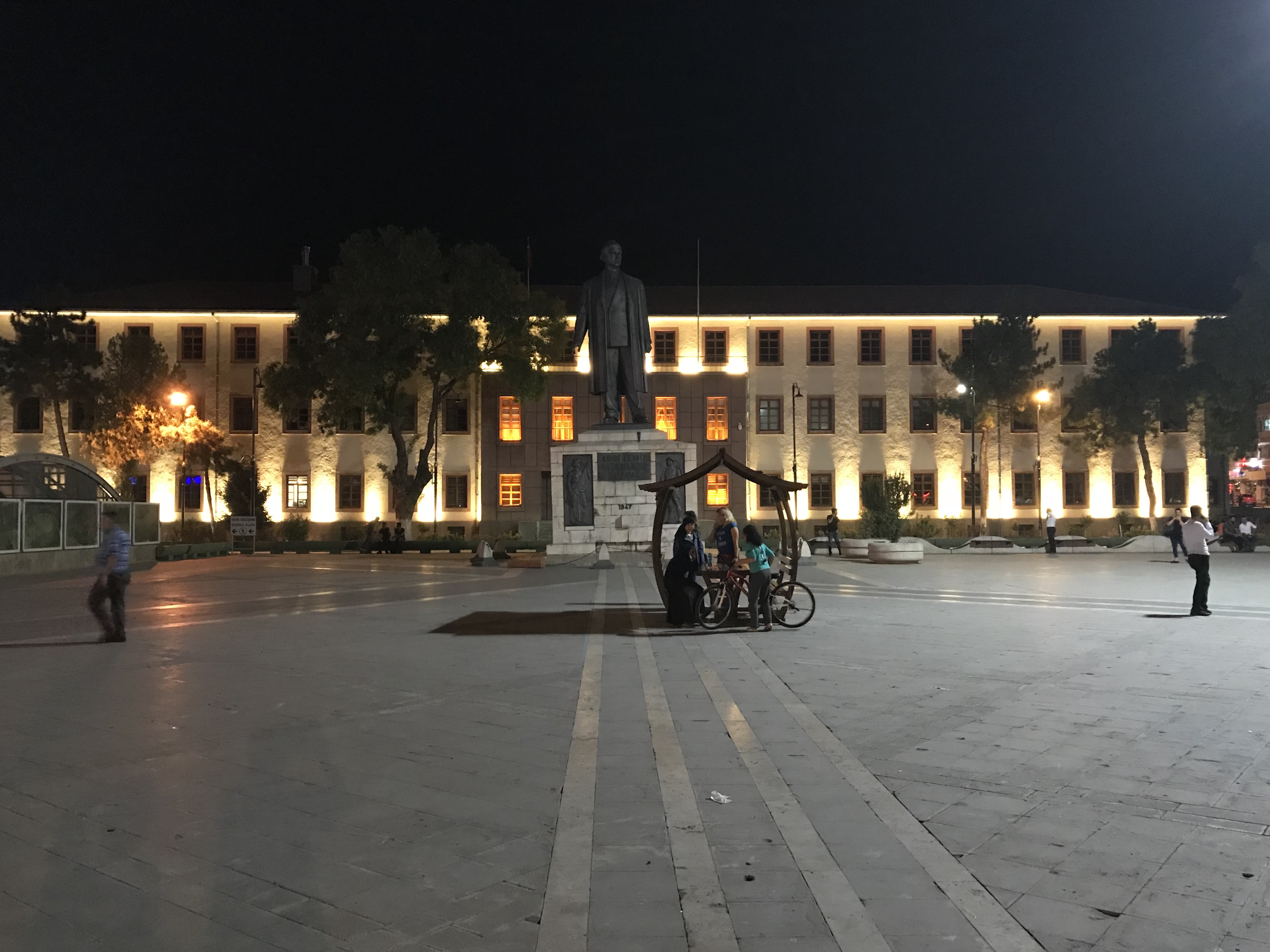 Northern view of the building of Governorship of Malatya at night.